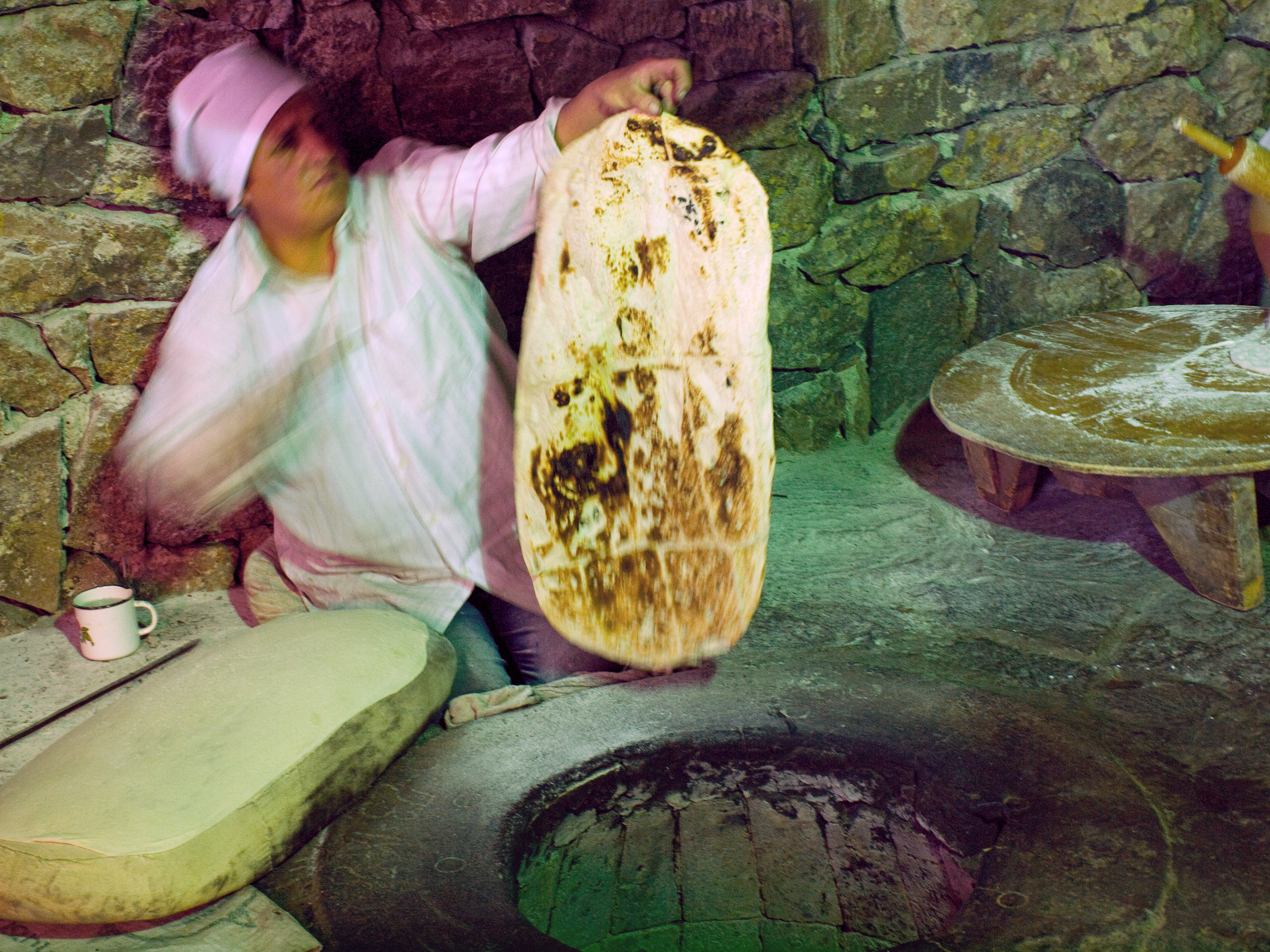 Traditional lavash bread making